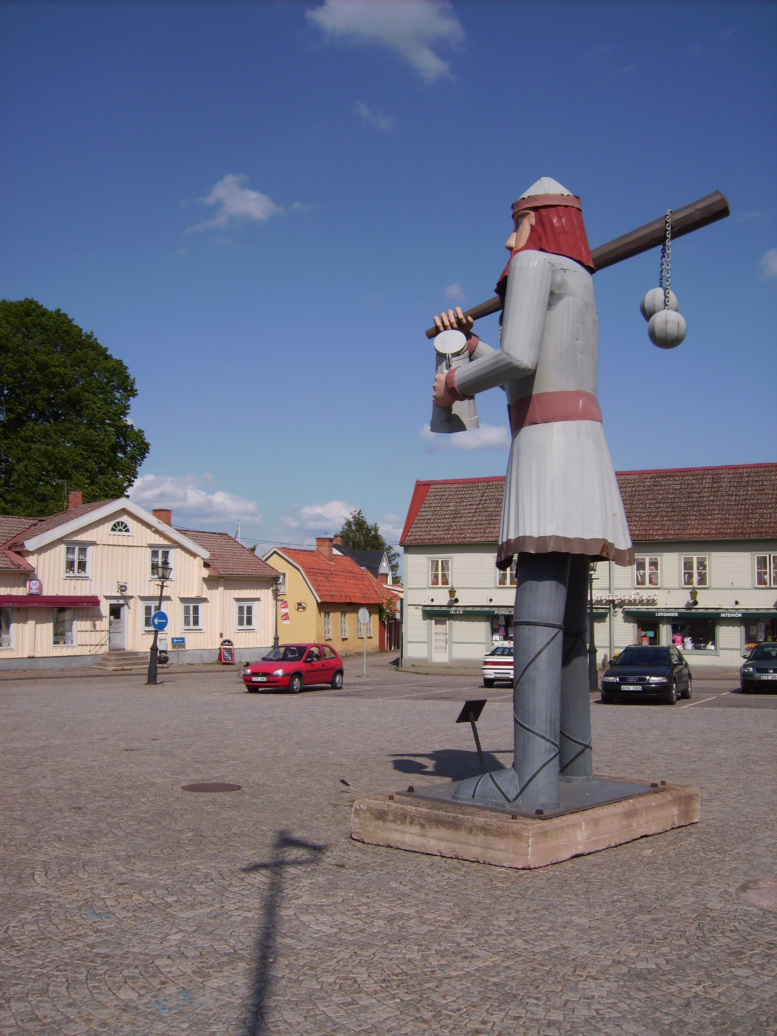 The statue of "Ture Lång" (like Roland statues in Germany, typical in medieval north European cities) in Skänninge.